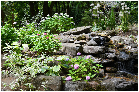 Schloss Beilstein (Westerwald), part of the castle garden, July 2018.